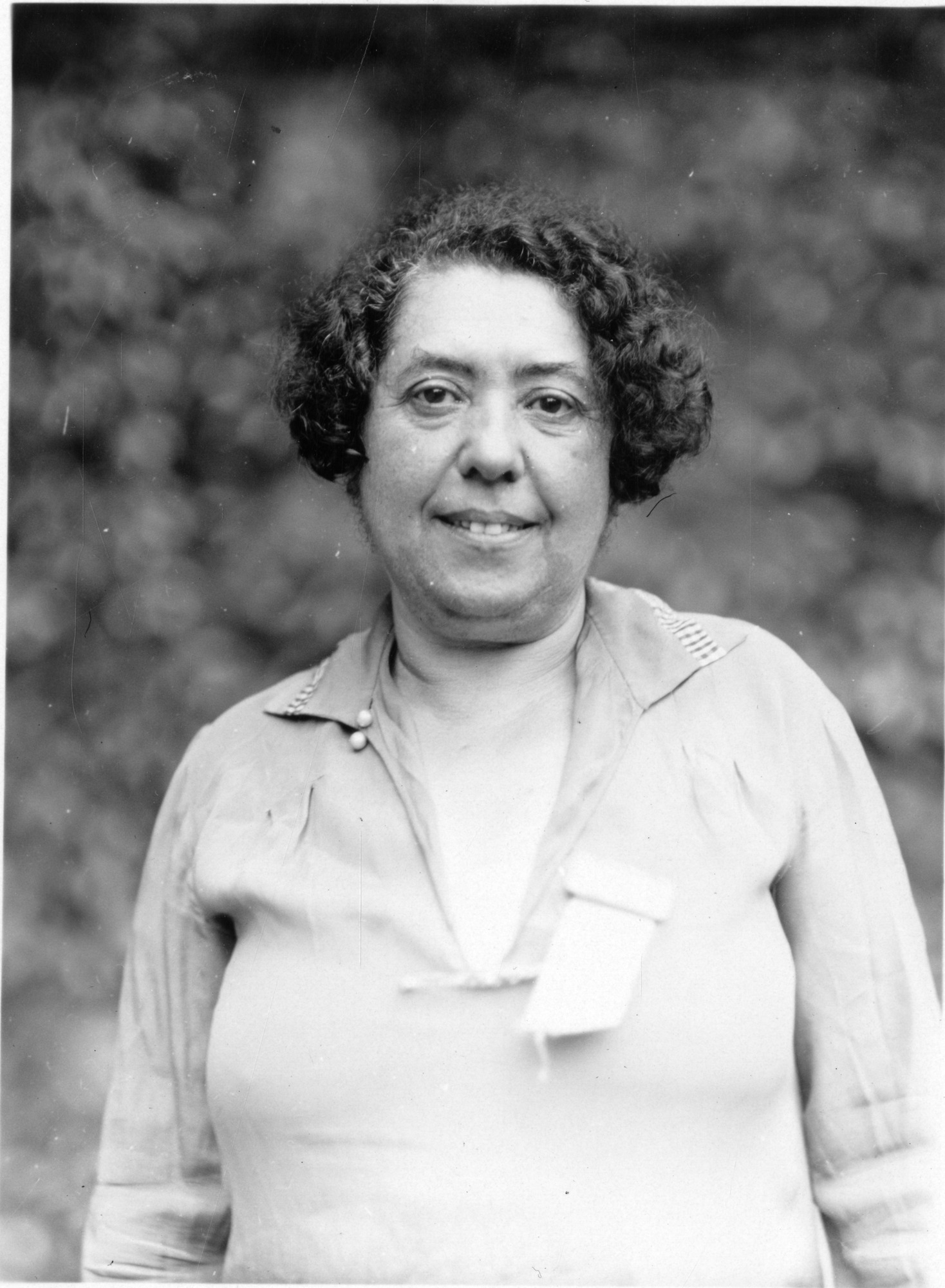 Subject: Shtern, L. S (Lina Solomonovna) 1878-1968 University of Moscow International Congress of Psychology Type: Black-and-white photographs Date: 1929 Topic: Biochemistry Women scientists Blood-brain barrier Local number: SIA Acc. 90-105 [SIA2009-3770] Summary: Biochemist Lina Solomonova Stern (1878-1968), professor of physiology at the University of Moscow, did pioneering work on the blood-brain barrier. This photograph was distributed when she attended the Ninth International Congress of Psychology, New Haven, Connecticut, September 2-7, 1929 Cite as: Acc. 90-105 - Science Service, Records, 1920s-1970s, Smithsonian Institution Archives Persistent URL:Link to data base record Repository:Smithsonian Institution Archives View more collections from the Smithsonian Institution.